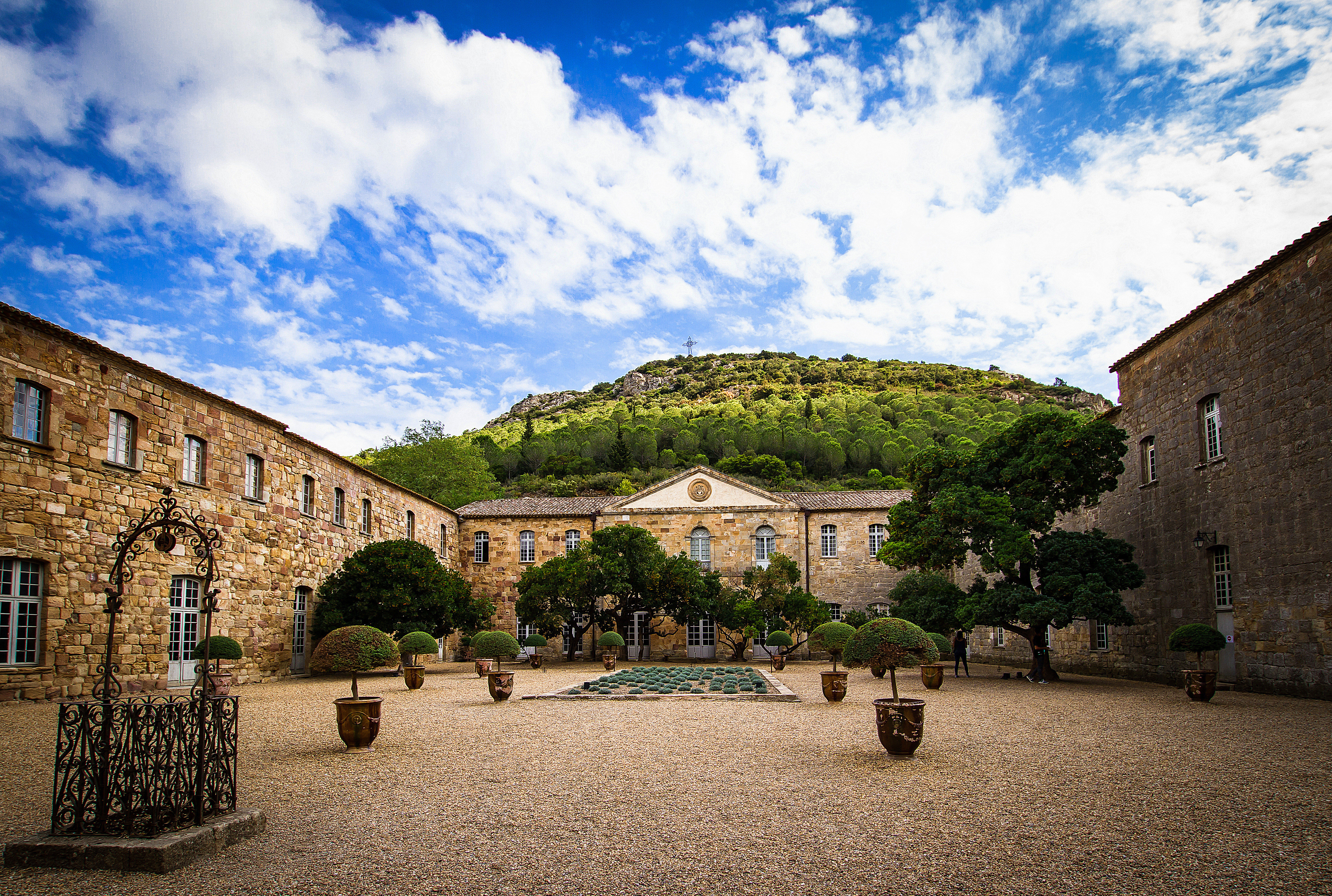 La cour de travail ou cour Louis XIV